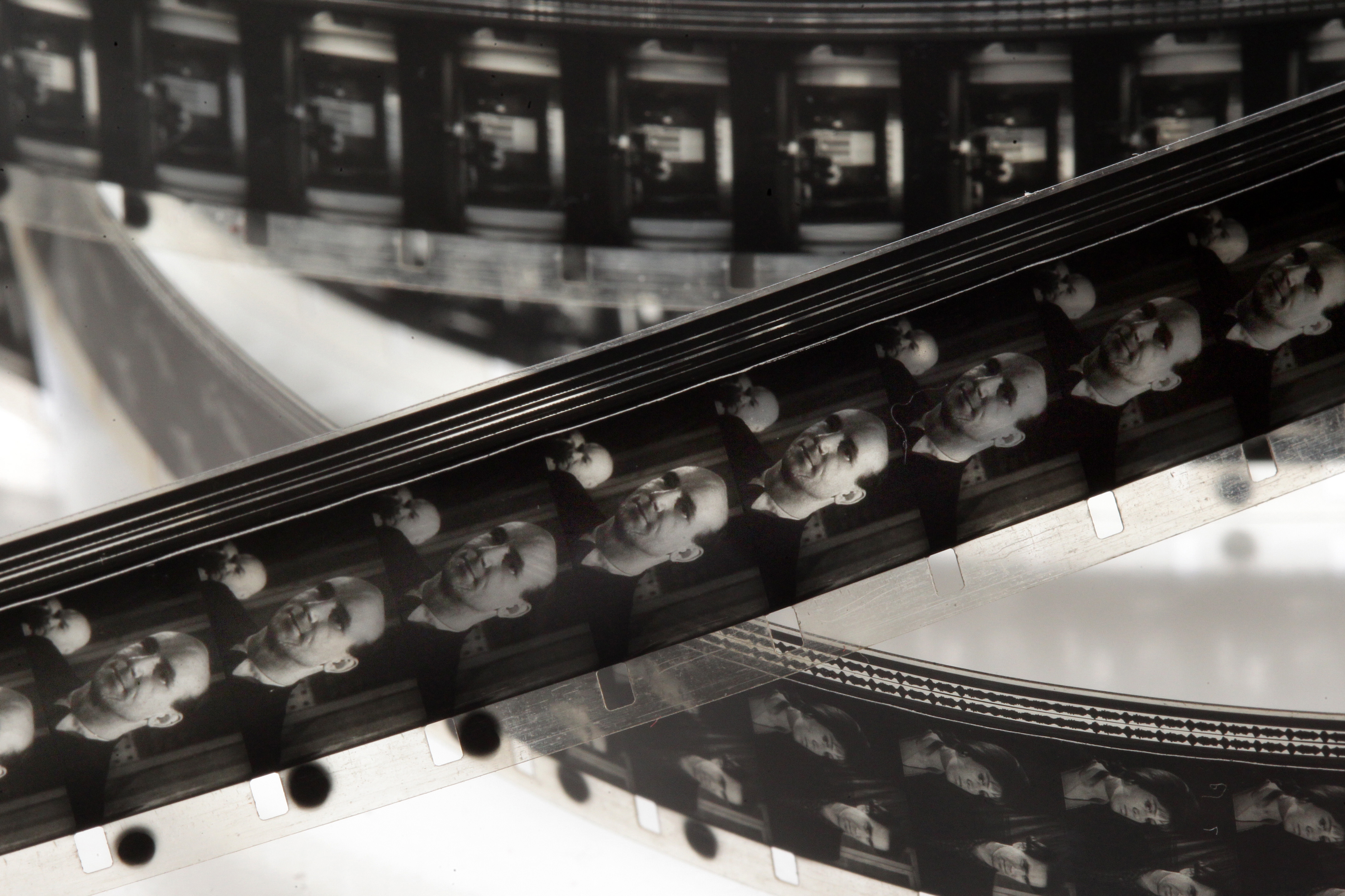 16-mm b&w sound film print.